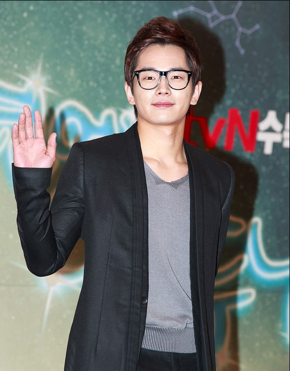 On Joo-wan at Twelve Men in a Year (tvN / 2012) premiere, in February 2012